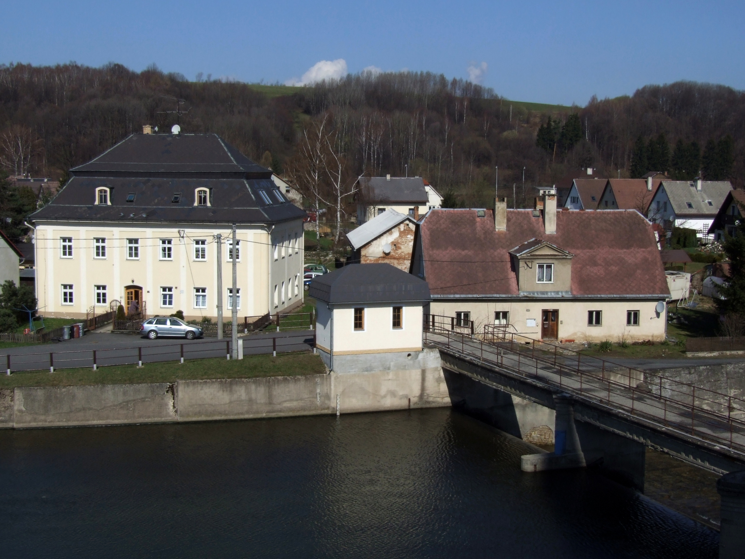 Mikulovice (Niklasdorf) - river Bělá